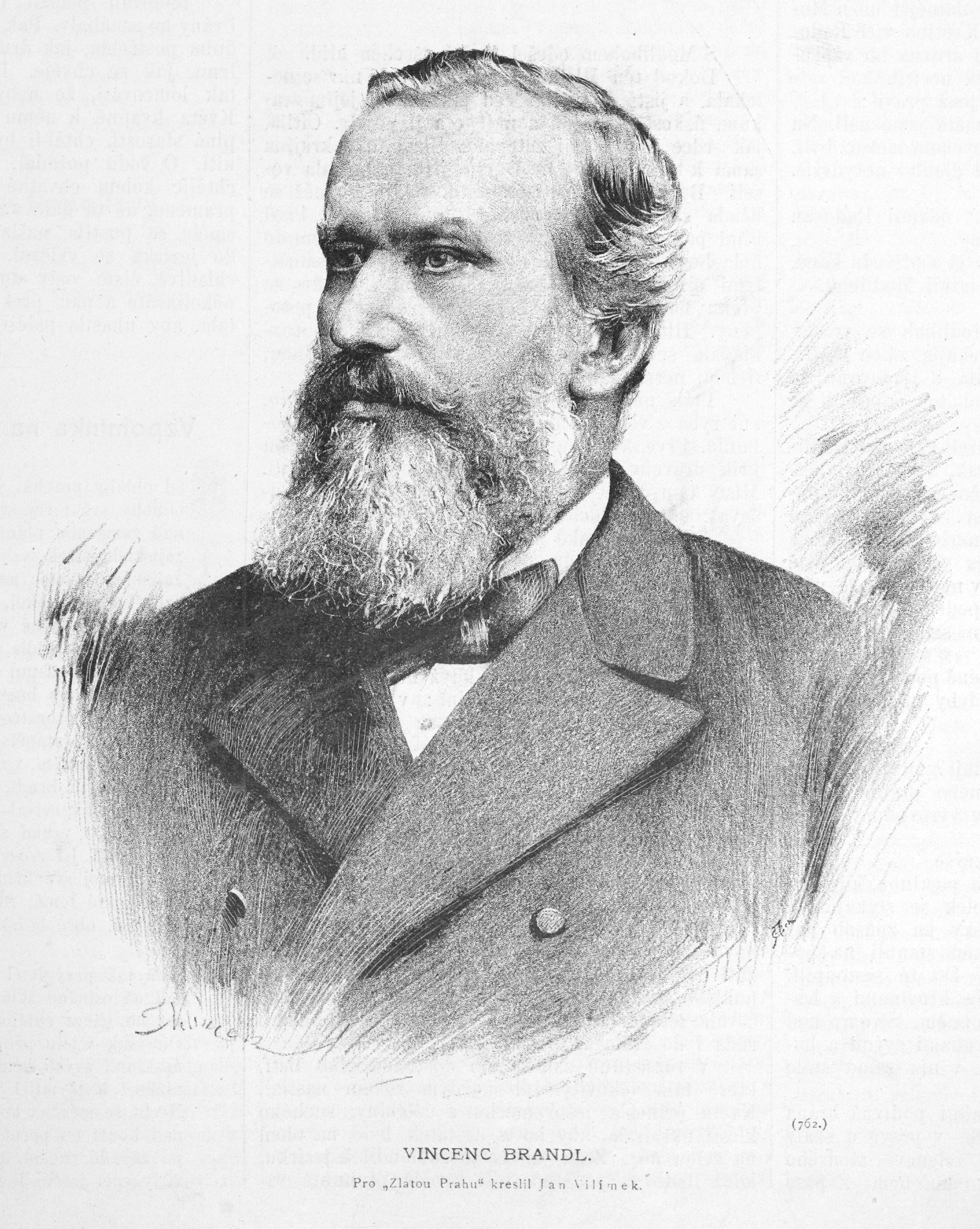 Portrait of Vincenc Brandl (1834-1901), Moravian archivist and historian